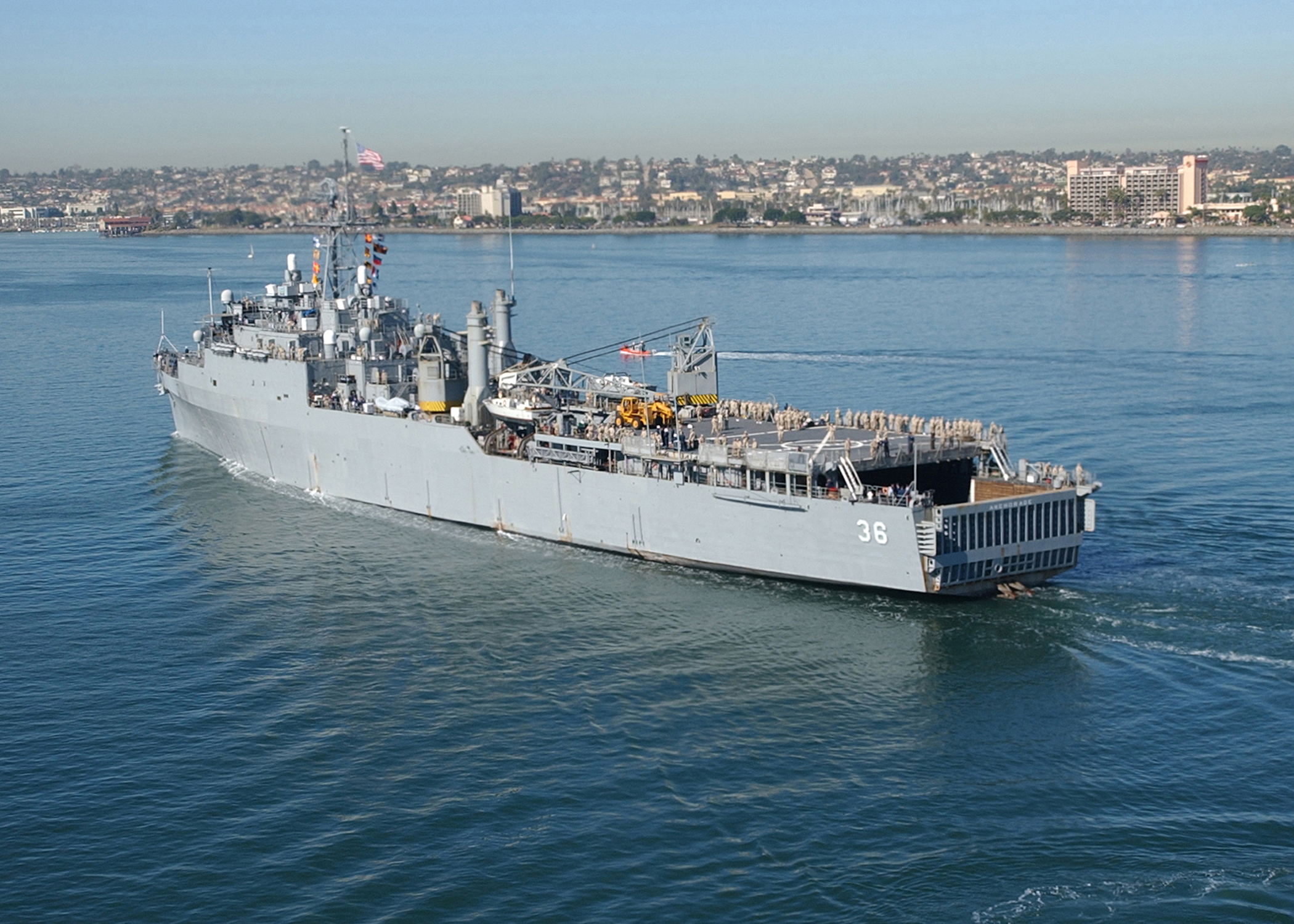 San Diego, Calif. (Jan. 17, 2003) -- USS Anchorage (LSD 36) departs San Diego Bay as she heads to sea for an unscheduled deployment in support of U.S. national interests. The amphibious dock landing ship is part of the 7-ship Amphibious Task Force West (ATF-W). U.S. Navy Photo by Photographer’s Mate 3rd Class Gregory Badger. (RELEASED)